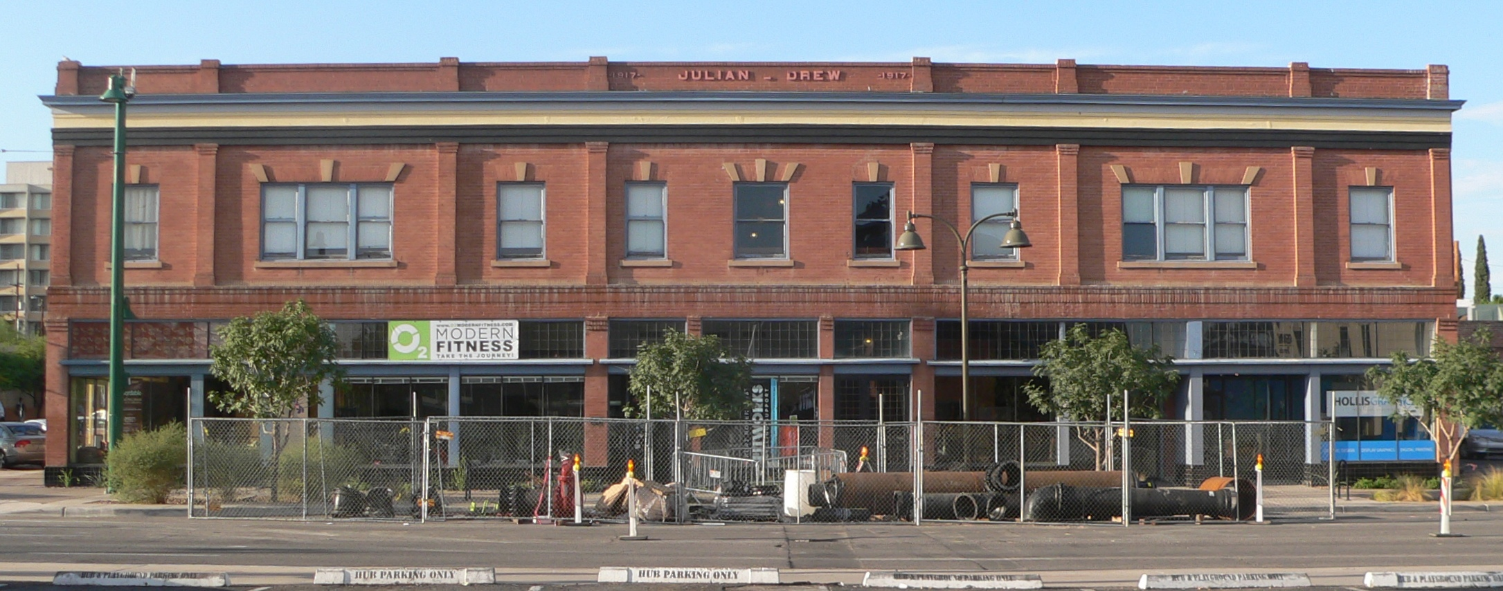 Julian-Drew building, located at southwest corner of 5th Avenue and Broadway Boulevard in Tucson, Arizona; seen from the north, across Broadway.